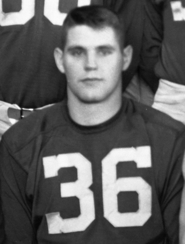 John Herrnstein, captain of the 1958 Michigan Wolverines football team seated between athletic director [{Fritz Crisler and head football coach Bennie Oosterbaan